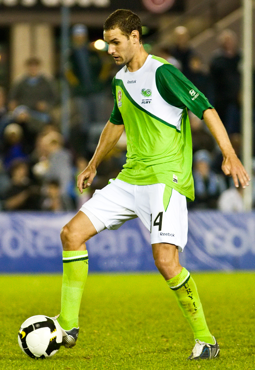 Chris Grossman playing in a pre-season match for the North Queensland Fury against Sydney FC.